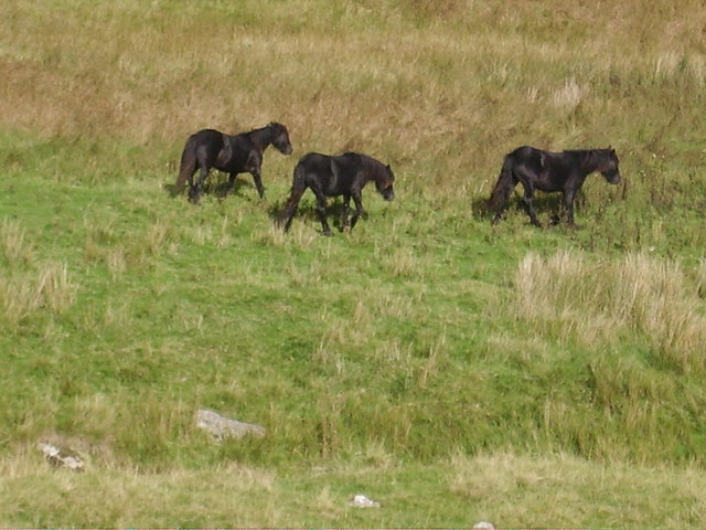 Fell Ponies, Cawdale The native Fell Pony still a familiar sight in these eastern fells. They galloped away at our approach and caused a small herd of Red Deer to bolt on the slopes of Cawdale Edge above them.